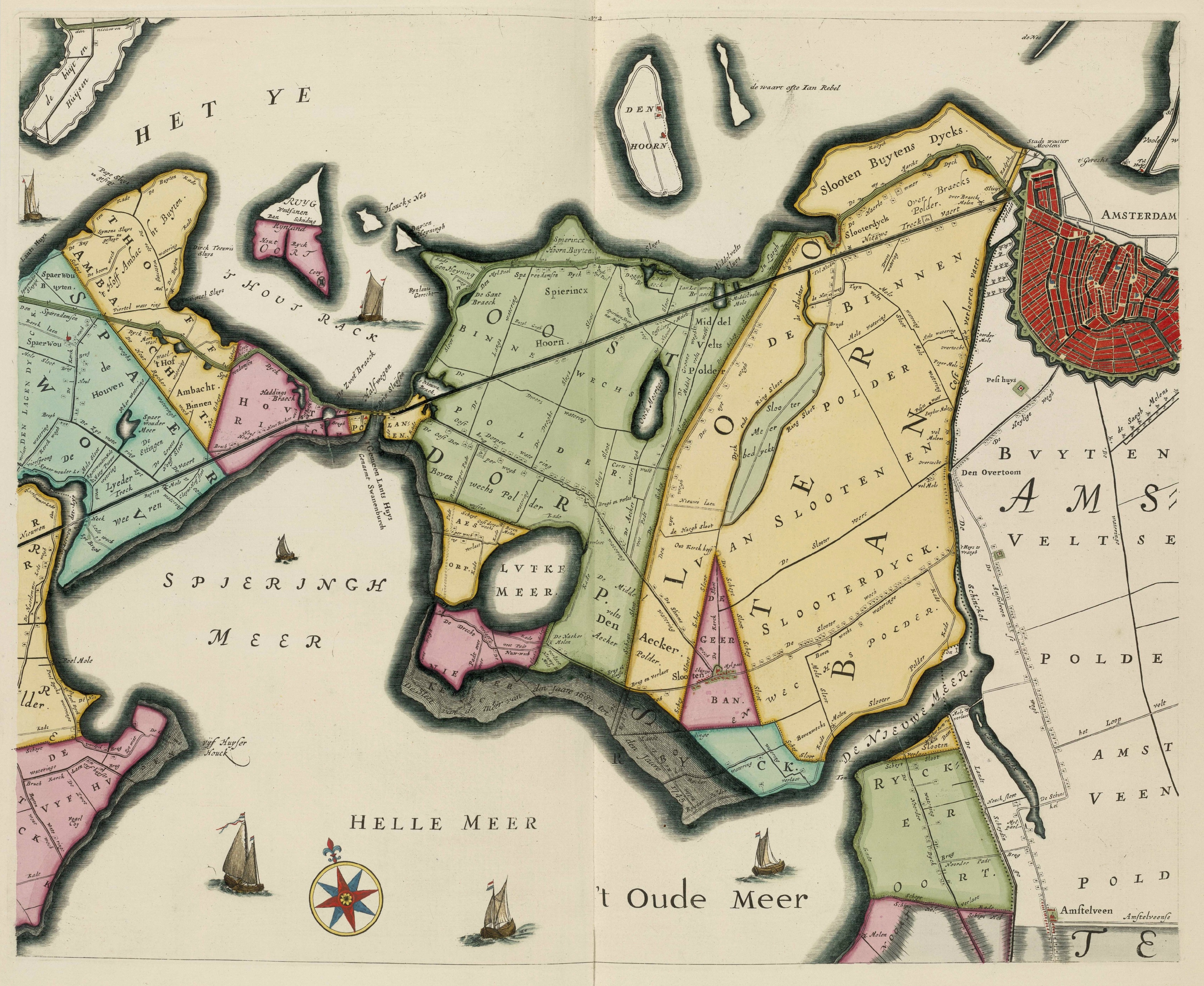 Map from 1746 of the Water Board of Rhineland, area Amsterdam - Halfweg - Haarlem (Province of North Holland, Netherlands). This map is the third edition of the map of 1647, made by the surveyors Jan Janszoon (Johannes) Douw and Steven Pieterszoon van Brouckhuijsen. A second edition, revised by Johan Douw, was published in 1687. This third edition from 1746 has been substantially revised by surveyor Melchior Bolstra. The changes concern mainly the identification of vast peat bogs and reclaimed peat lakes. These lakes were created from 1530 when people passed from peat mining to peat dredging, resulting in vast areas below sea level. This map comes from the cartographic collection of the Water Board of Rhineland, collection number A-4485.